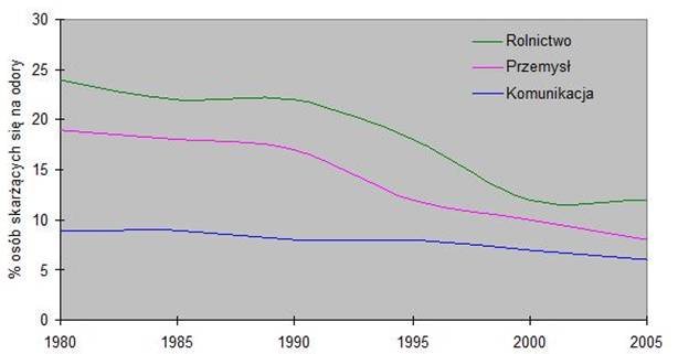 Odours in the Netherland (1980-2005)